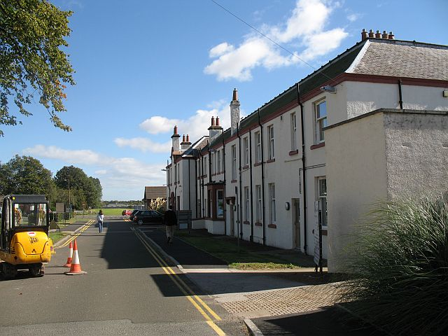 Roodlands Hospital, Haddington The usual collection of buildings rather than one block as shown on the OS map.